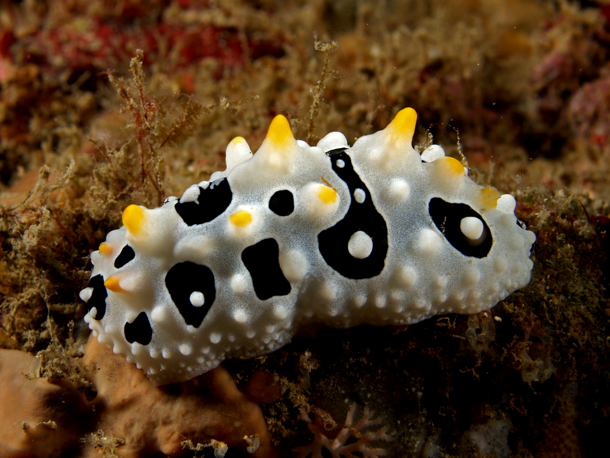 Phyllidia babai (Nudibranch)